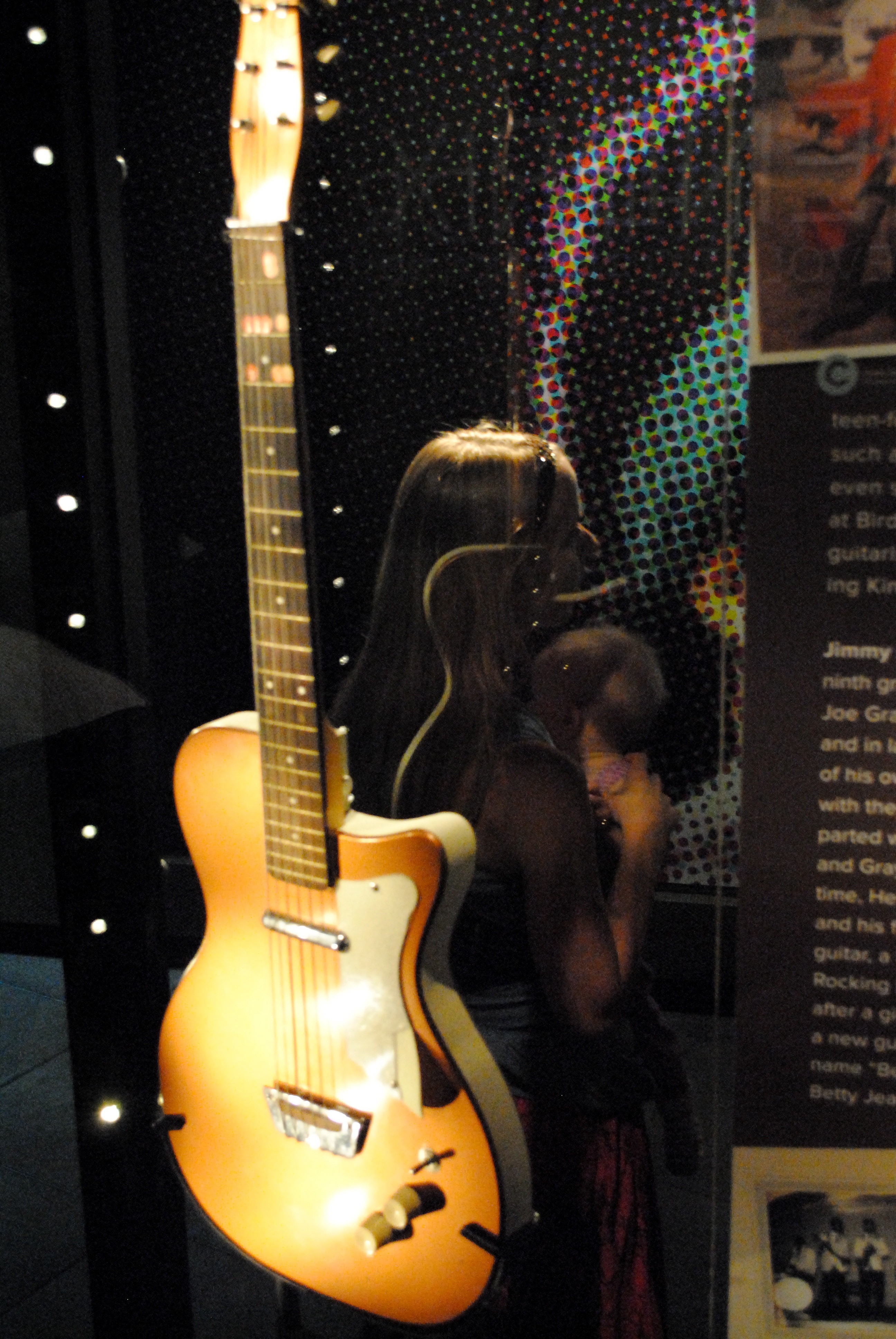 Experience Music Project/ Science Fiction Museum and Hall of Fame. Danelectro U1 (1956-1958)[1] "... [Ibanez by Guyatone] 1830 or model 1860 "Rhythm Maker" (1960) is said to be a model for which Jimi Hendrix had traded in his Danelectro, in 1962 [at Collins Music Store, Clarksville].[2][3]"— English Wikipedia "Ibanez Jet King" References ↑ DanElectro, Silvertone, Coral Vintage Guitar Info. Vintage Guitars Info. ↑ Harry Shapiro, Michael Heatley, Roger Mayer "1961 Epiphone Wilshire" in Jimi Hendrix Gear, Voyageur Press, p. 34 ISBN: 9781610604215. "​... in September 1962, he traded in his Danelectro (valued at $20) for an unidentified Ibanez electric from Collins Music Store in Clarksville, Tennessee. Unable to keep up the $10-per-week installments on his $95.87 purchase, he voluntarily returned the guitar in mid-November. His next purchase was a new Epiphone Wilshire, ... " ↑ Steven Roby, Brad Schreiber "Chronology of Tours and Events, 1962-1966: November 1962" in Becoming Jimi Hendrix: From Southern Crossroads to Psychedelic London, the Untold Story of a Musical Genius, Da Capo Press, p. 222 ISBN: 9780306819100. "​Thesday, 11/13 ... Hendrix voluntarily returns the Ibanez guitar he got on loan from Collins Music Store in Clarksville because he cannot continue payments. "